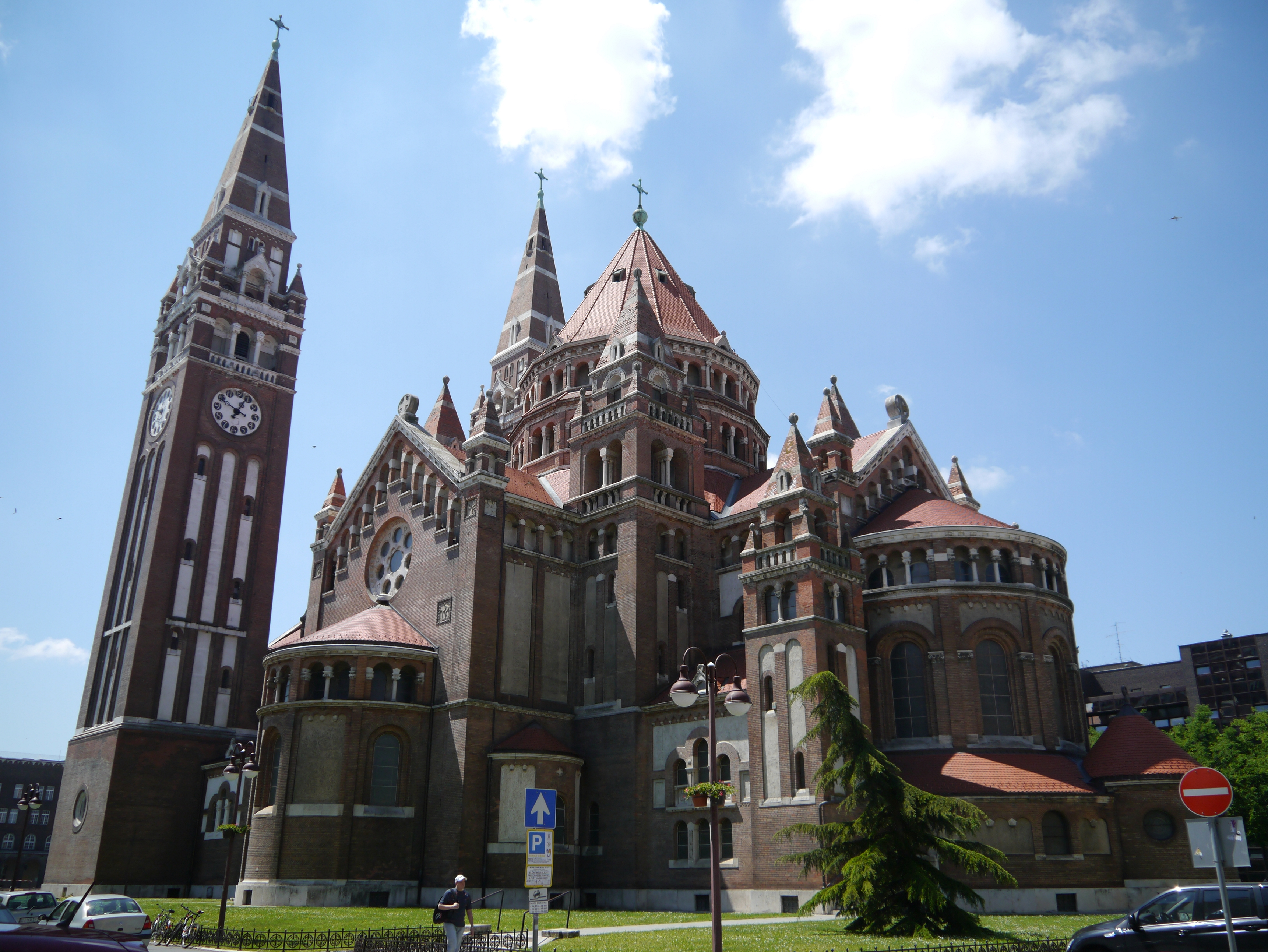 Cathedral of Our Lady, Szeged, Southern Hungary